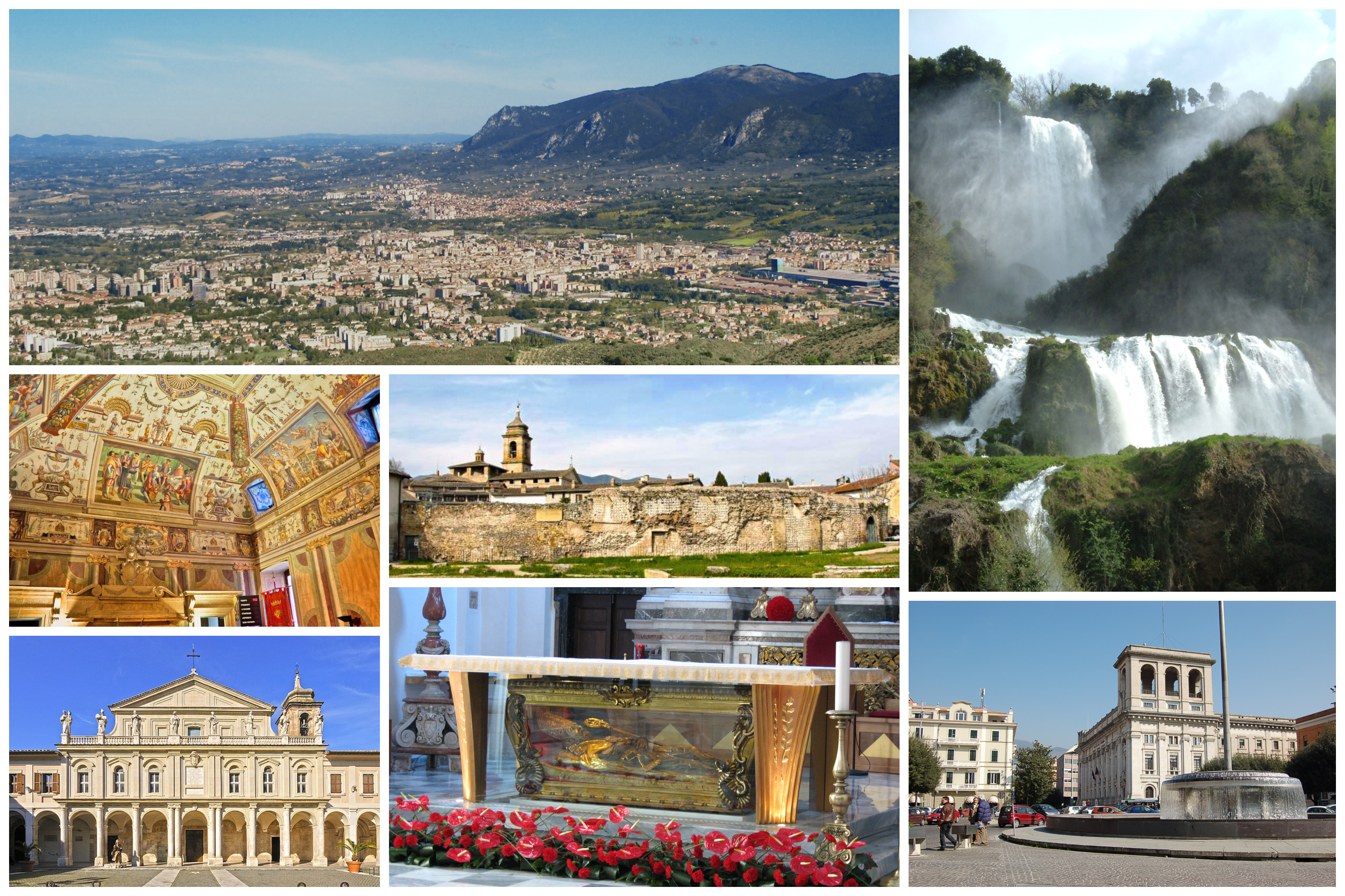 Collage of pictures from the city of Terni